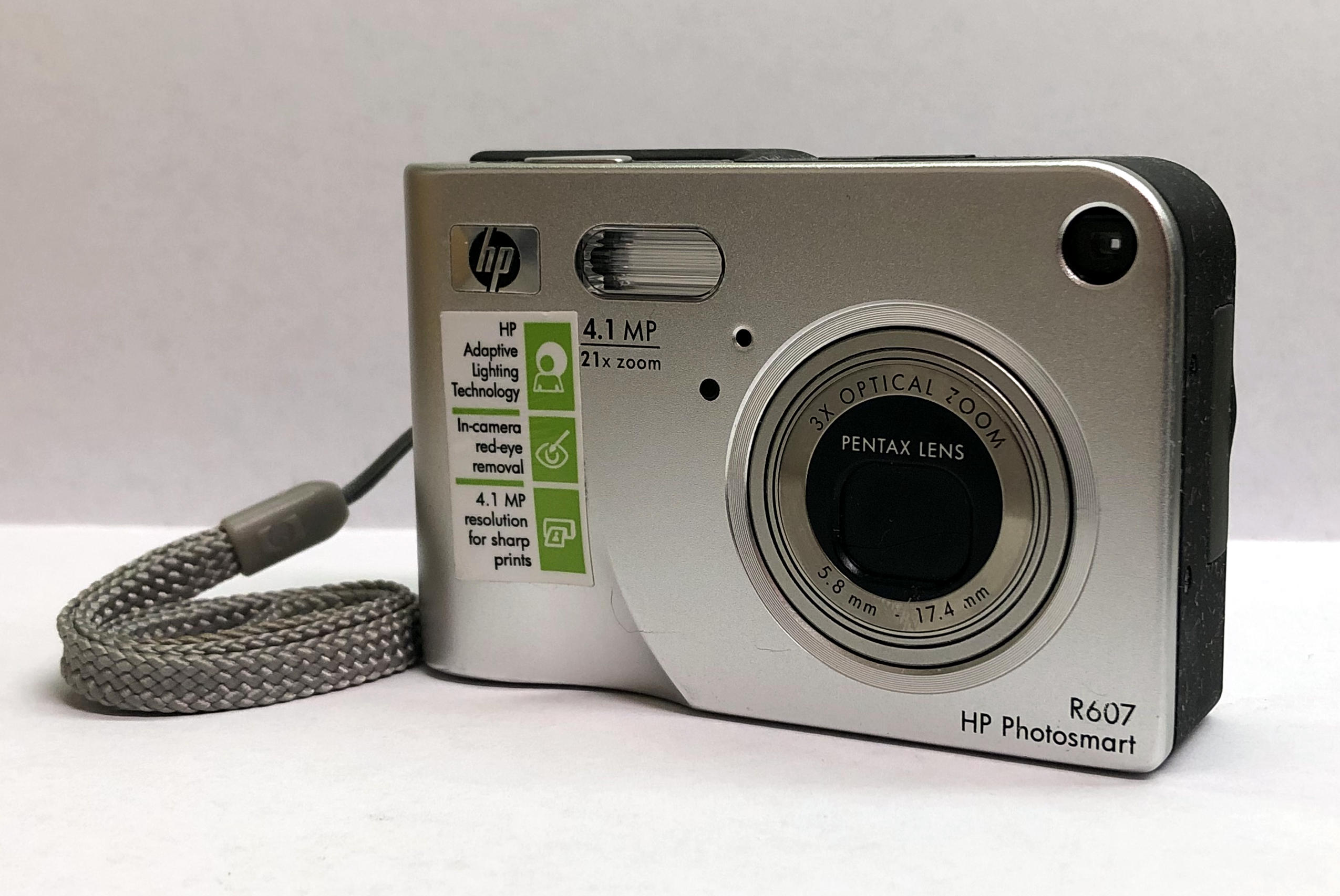 Hewlett Packard PhotoSmart R607 4.1 megapixel with Pentax motorized drive lens